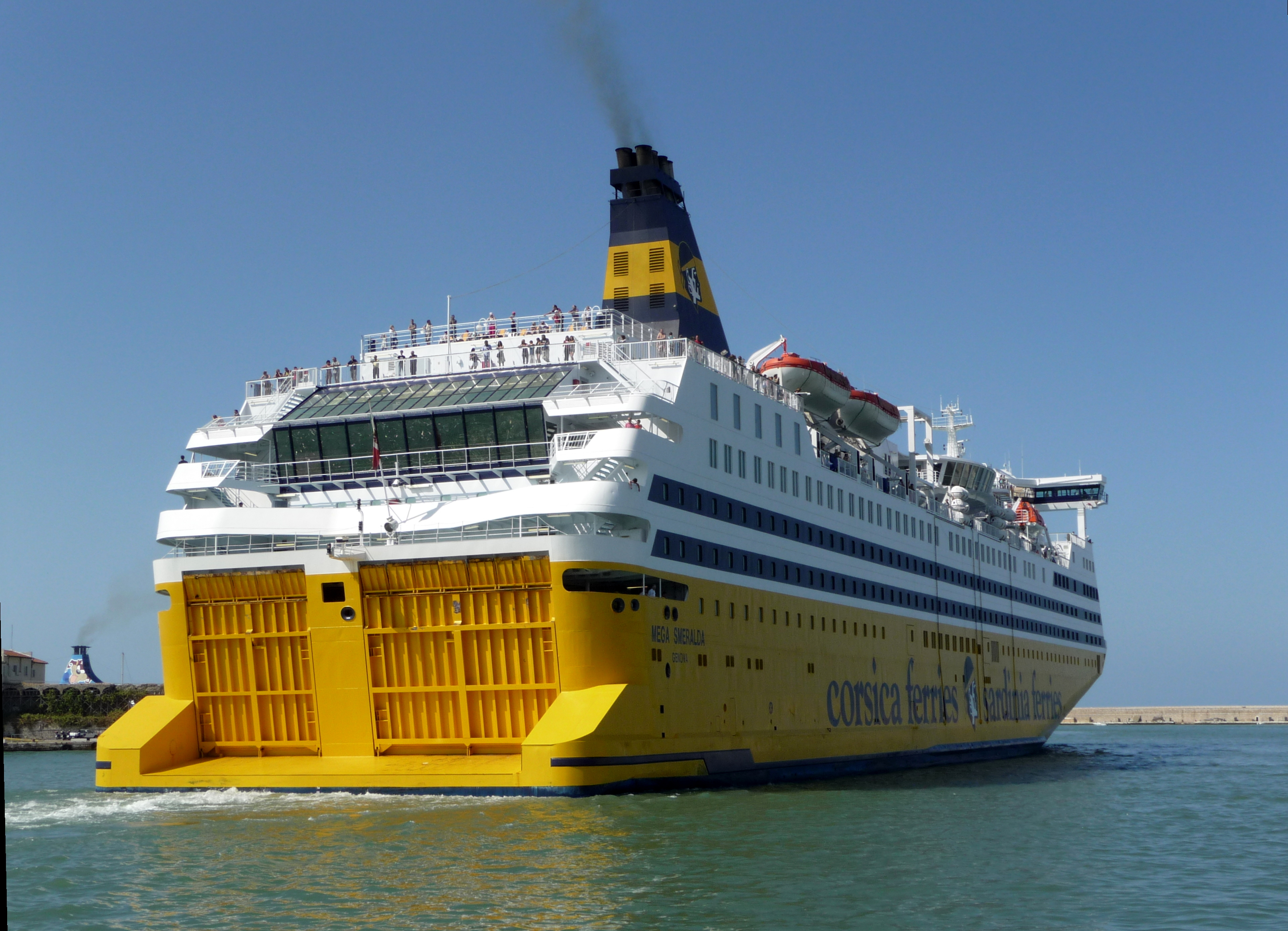 Ferry "Mega Smaralda" (Wärtsilä Helsinki Shipyard, Finland, Hull-No: 470, 1985, ex Color Festival, Silja Karneval, Svea